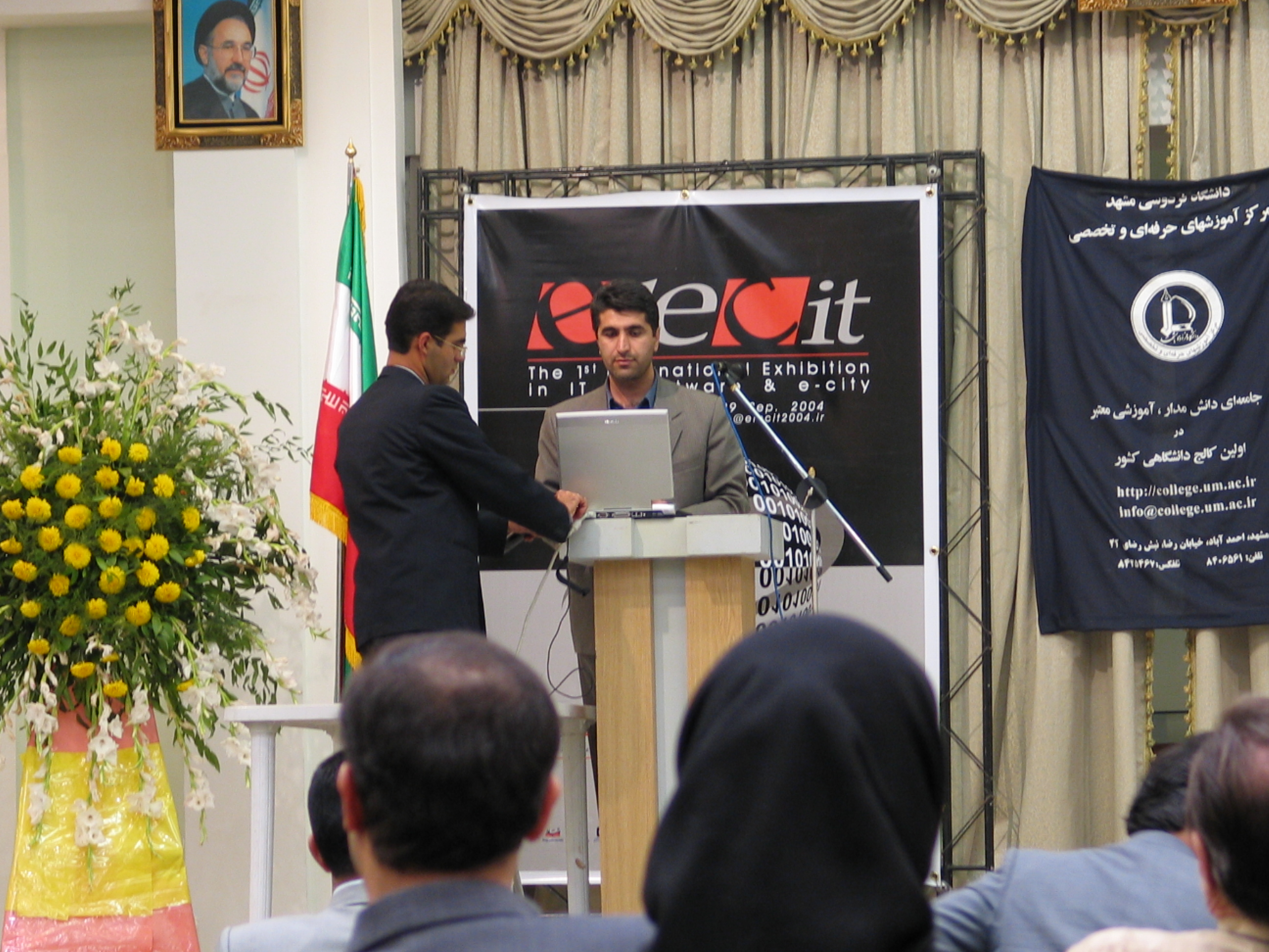 Alireza Nasiri during the first national exhibition in IT in Iran.